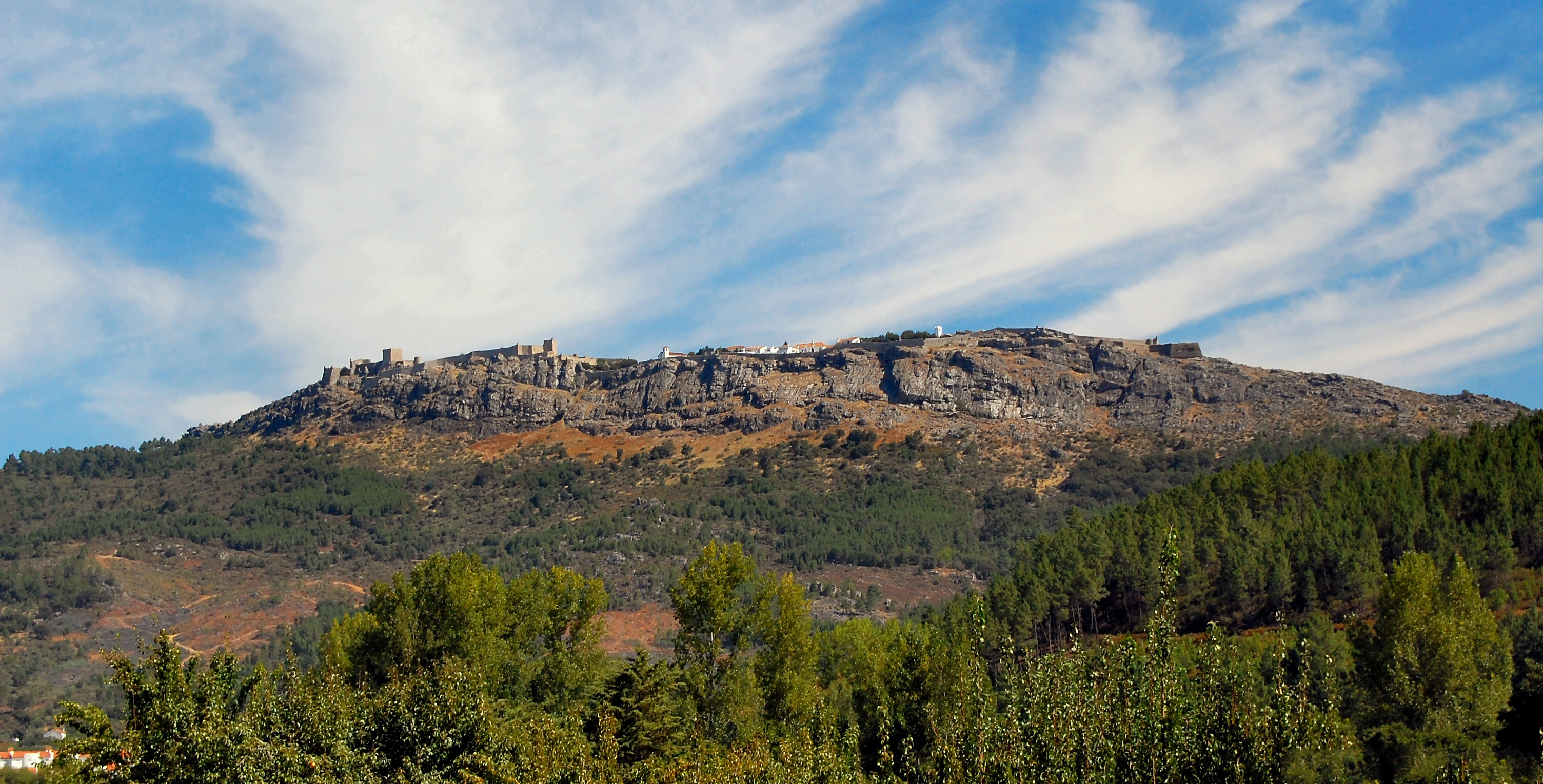 Marvão is a municipality in Portugal with a total area of 154.9 km² and a total population of 3,739 inhabitants.